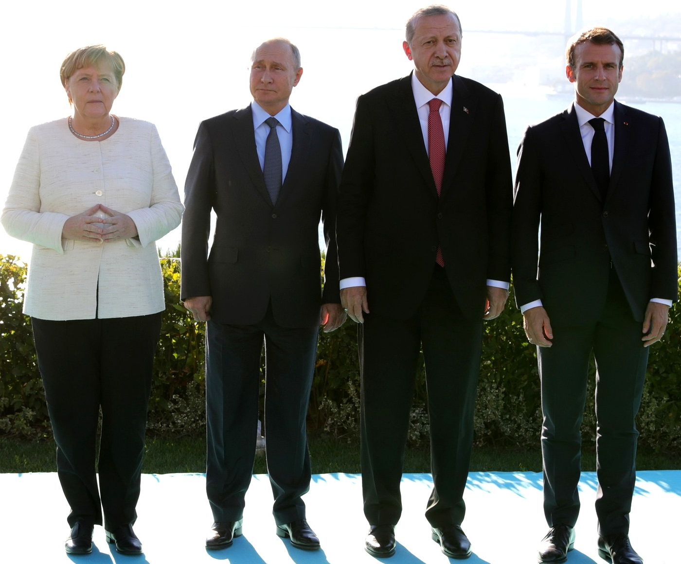 Putin, President of Turkey Recep Tayyip Erdogan and President of France Emmanuel Macron.